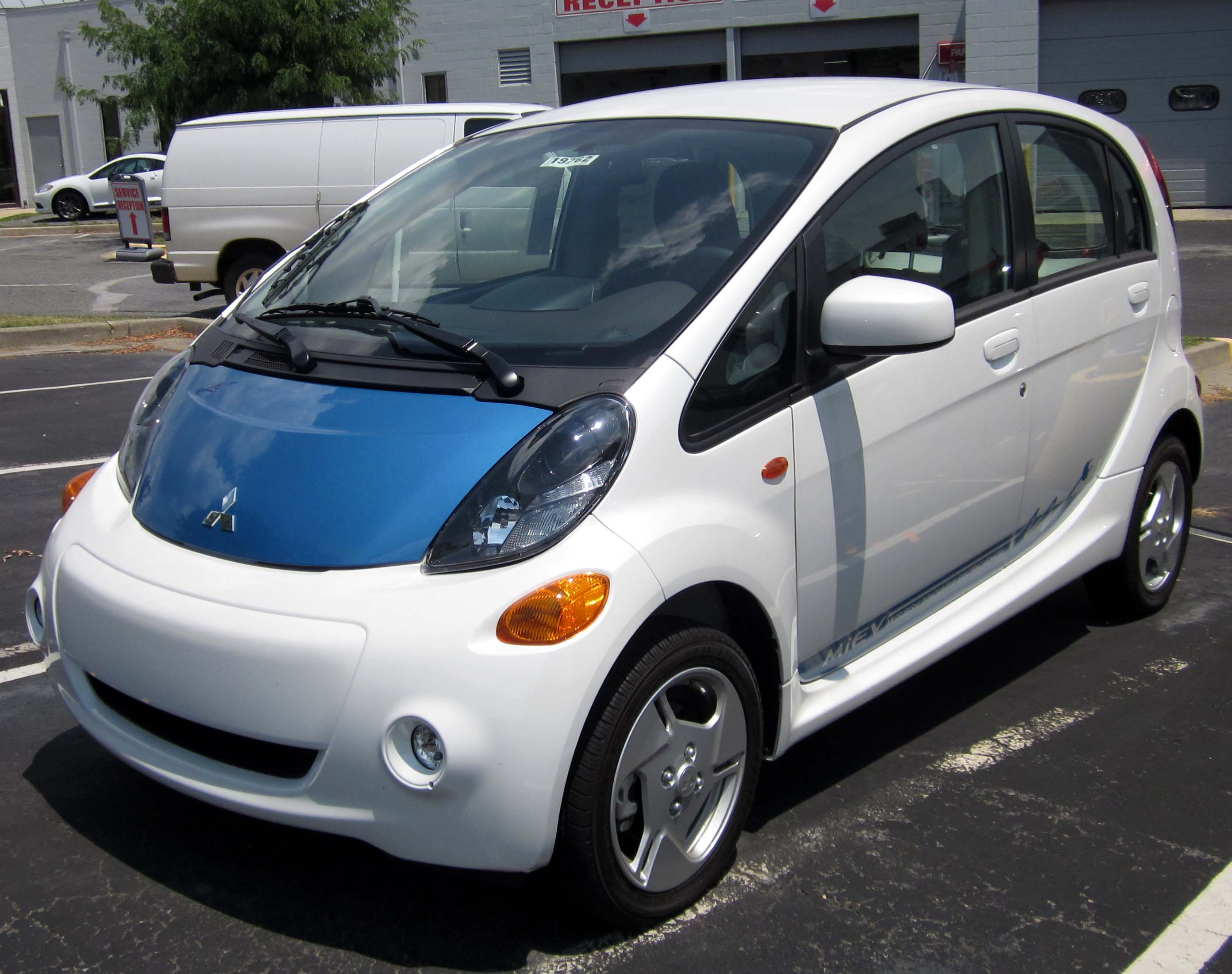 2012 Mitsubishi i-MiEV photographed in Silver Spring, Maryland, USA.